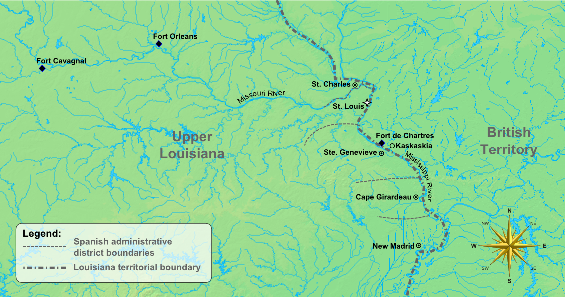 Map of the early settlements and forts of Upper Louisiana (colonial-era Missouri) created using background image from DEMIS mapserver and Inkscape to add details and boundaries.